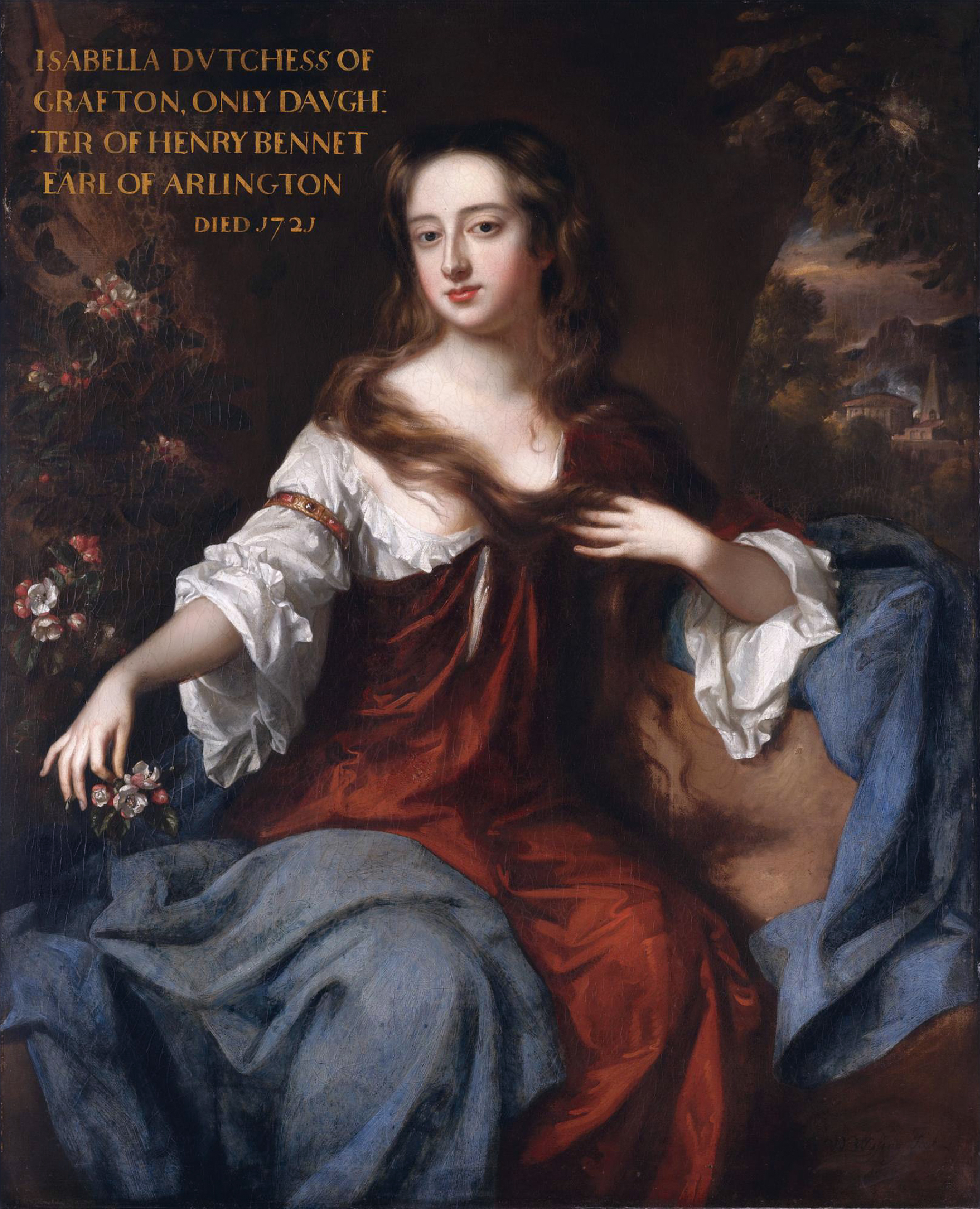 Isabella, Dutchess of Grafton oil on canvas 124 x 101 cm signed l.r.: W Wissing Fecit / 1686 later inscribed with identifying text: ISABELLA DVTCHESS OF / GRAFTON, ONLY DAVGH / TER OF HENRY BENNET / EARL OF ARLINGTON / DIED 1721